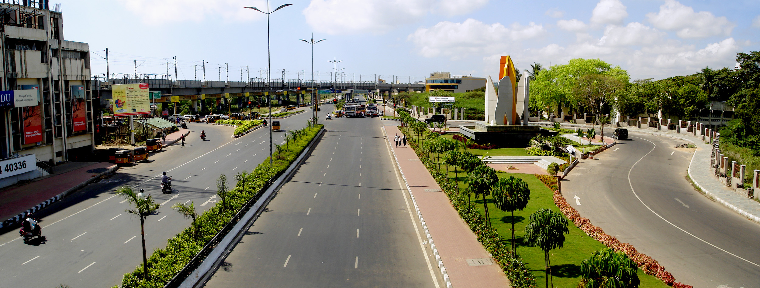 A view of the Tidel Park junction on Rajiv Gandhi Salai, Chennai. The Thiruvanmiyur staion on the Chennai MRTS can be seen on the left.